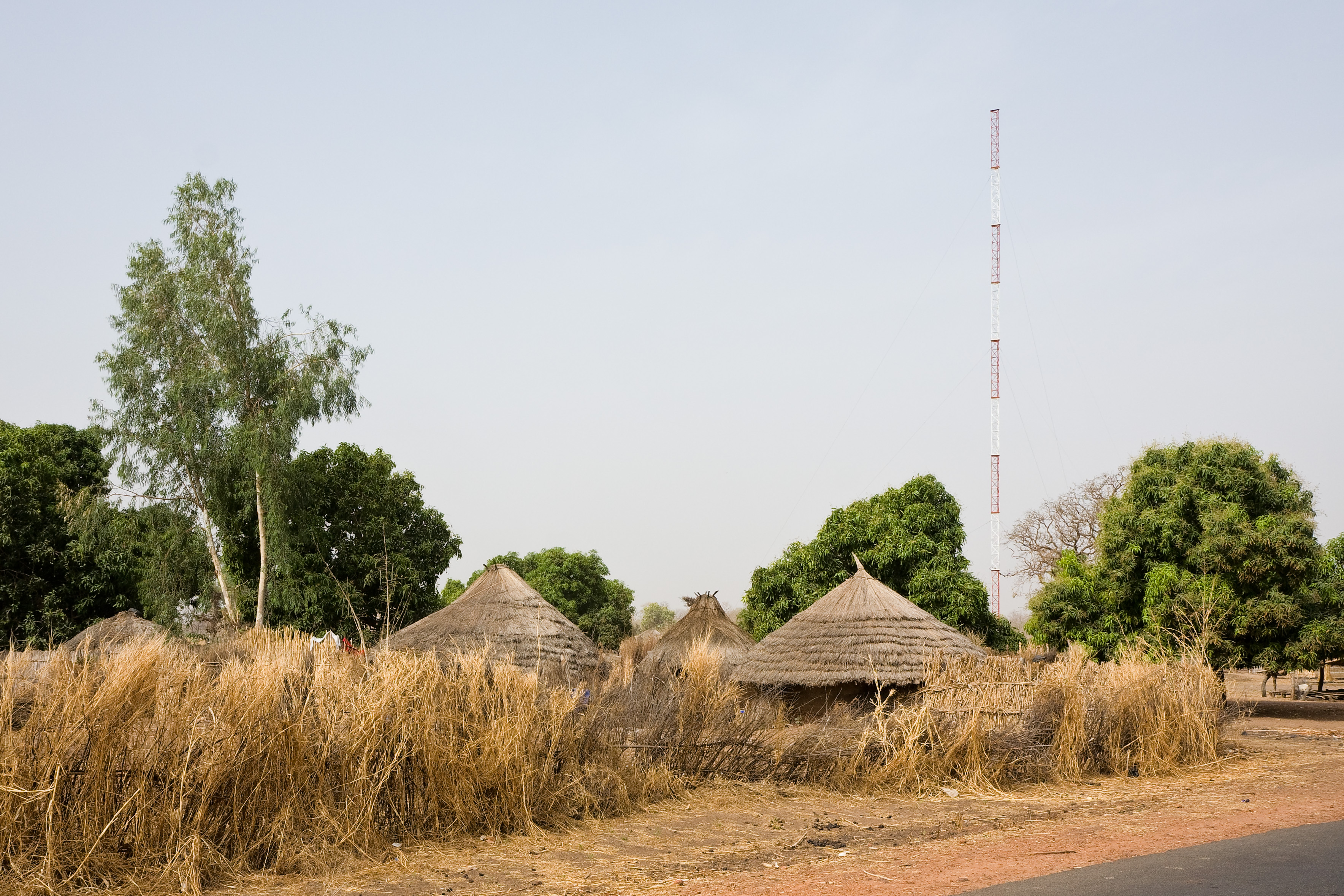 Rural village with mobile phone antenna in The Gambia. Almost every adult gambian has a mobile phone and uses it quite often.